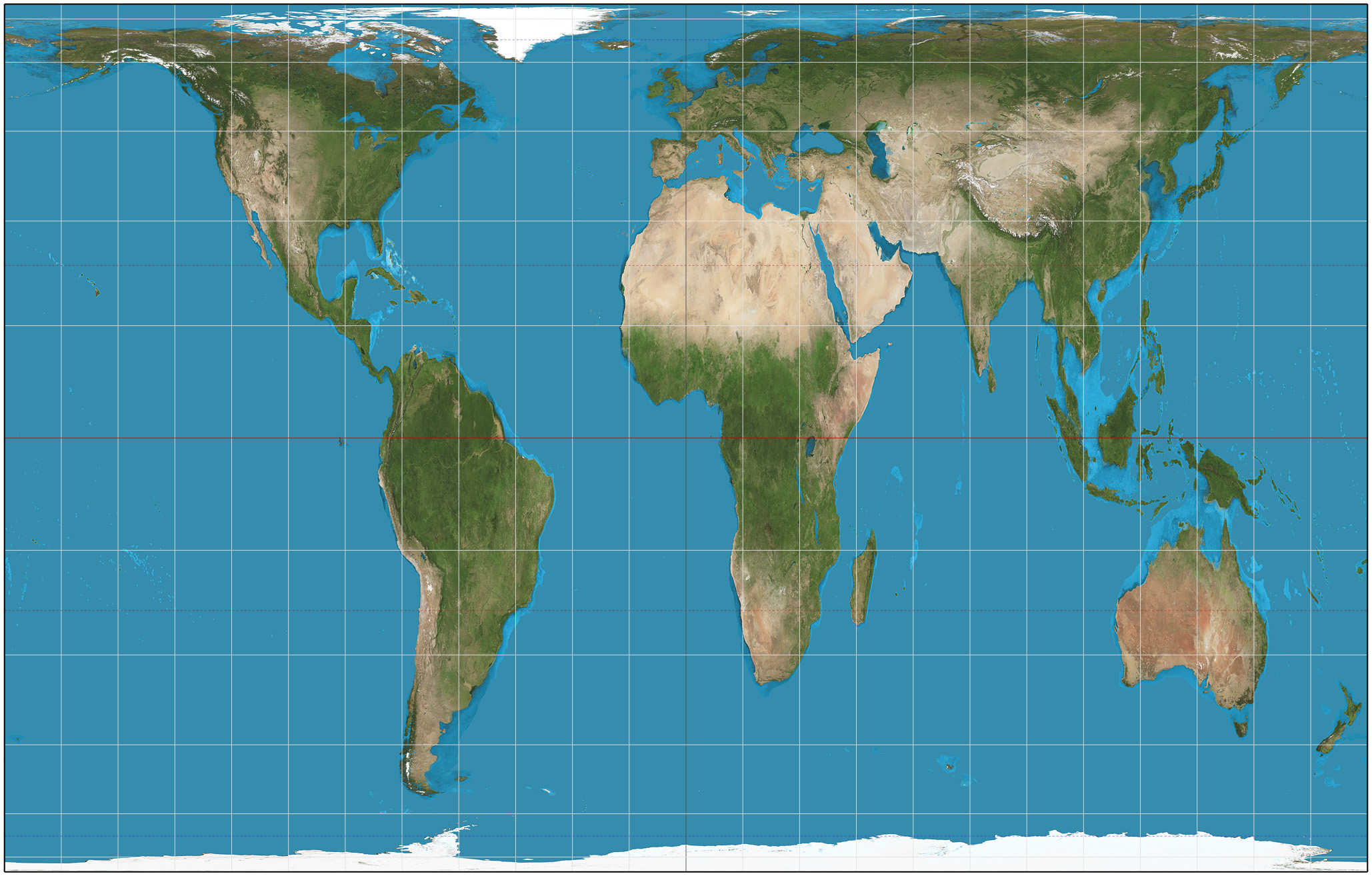 The world on Gall–Peters projection. 15° graticule. Imagery is a derivative of NASA’s Blue Marble summer month composite with oceans lightened to enhance legibility and contrast. Image created with the Geocart map projection software.